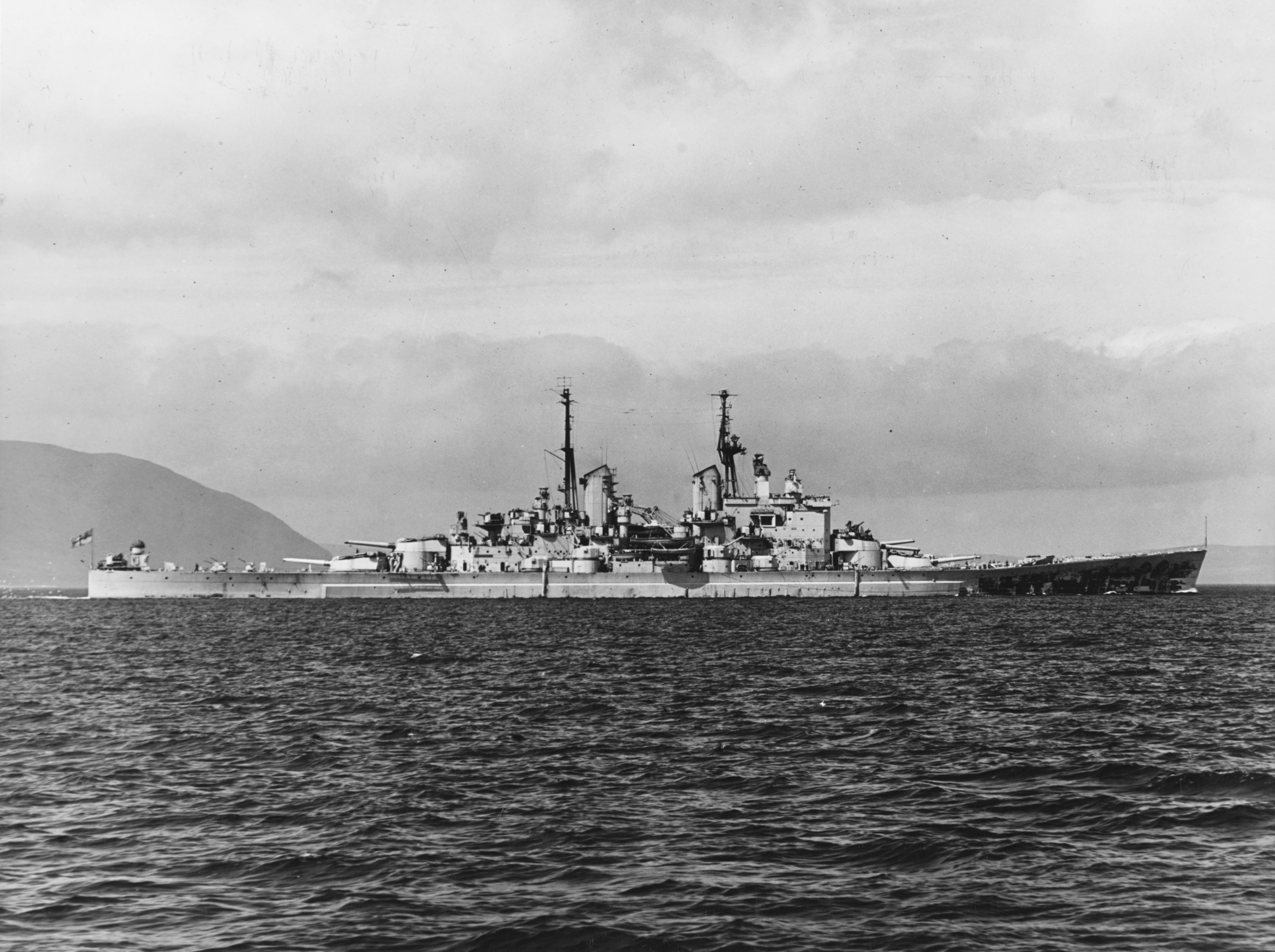 The Royal Navy battleship HMS Vanguard (23) underway, circa 1946-1948.